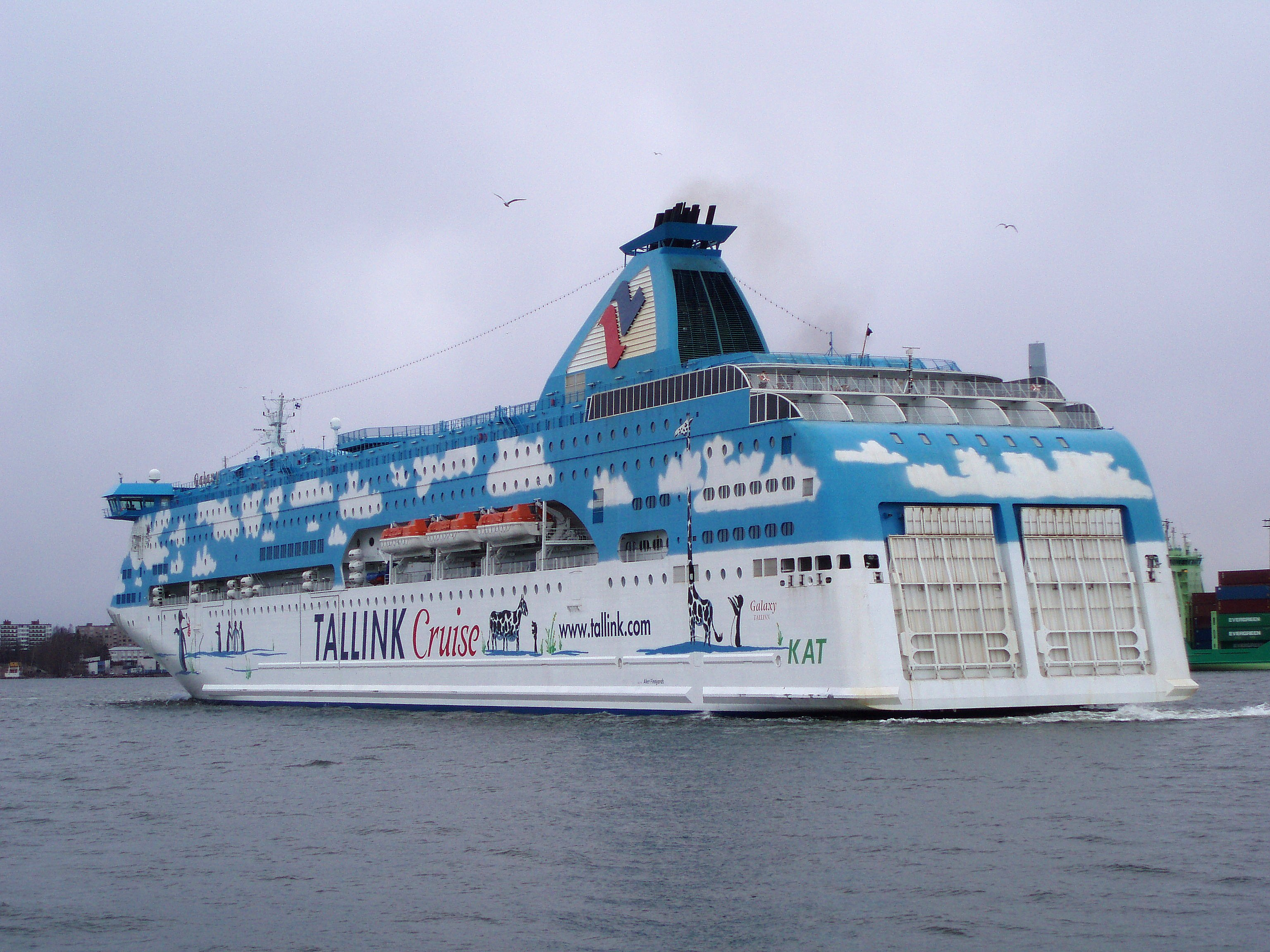 M/S Galaxy arriving at Helsinki West Harbour, 19. April 2007. Picture taken and uploaded by Kalle Id.